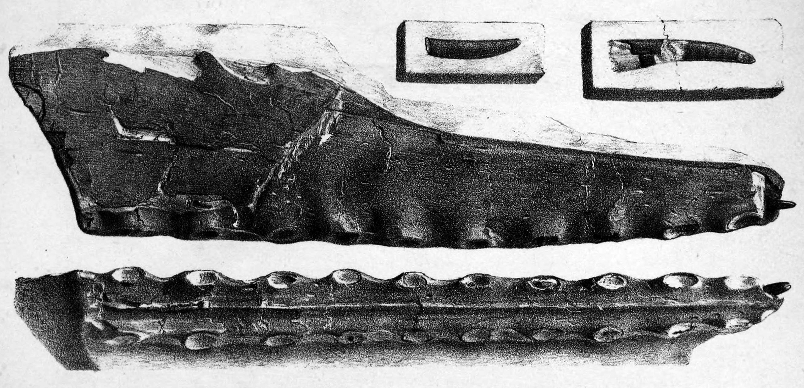 James S. Bowerbank's ornithocheirid pterosaur holotype (later classified as a species of Coloborhynchus, today disputed between Anhanguera and Ornithocheirus) from the Burham chalk pit, Kent, England. Upper jaw fragment from right lateral (center) and palatal (bottom), and associated teeth (top).